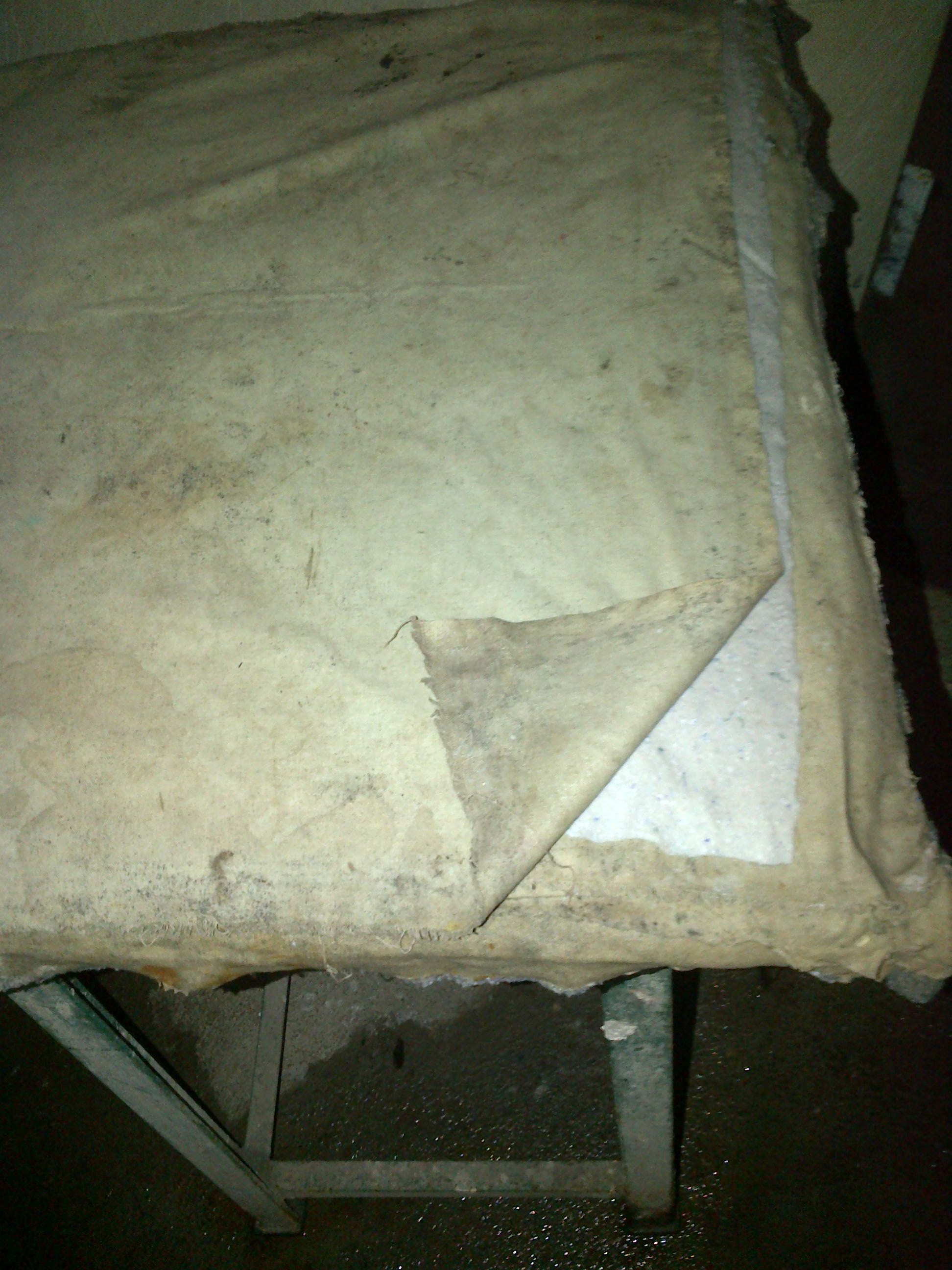 ಆಕಾರ ಪಡೆದಿರುವ ಪಲ್ಪ್